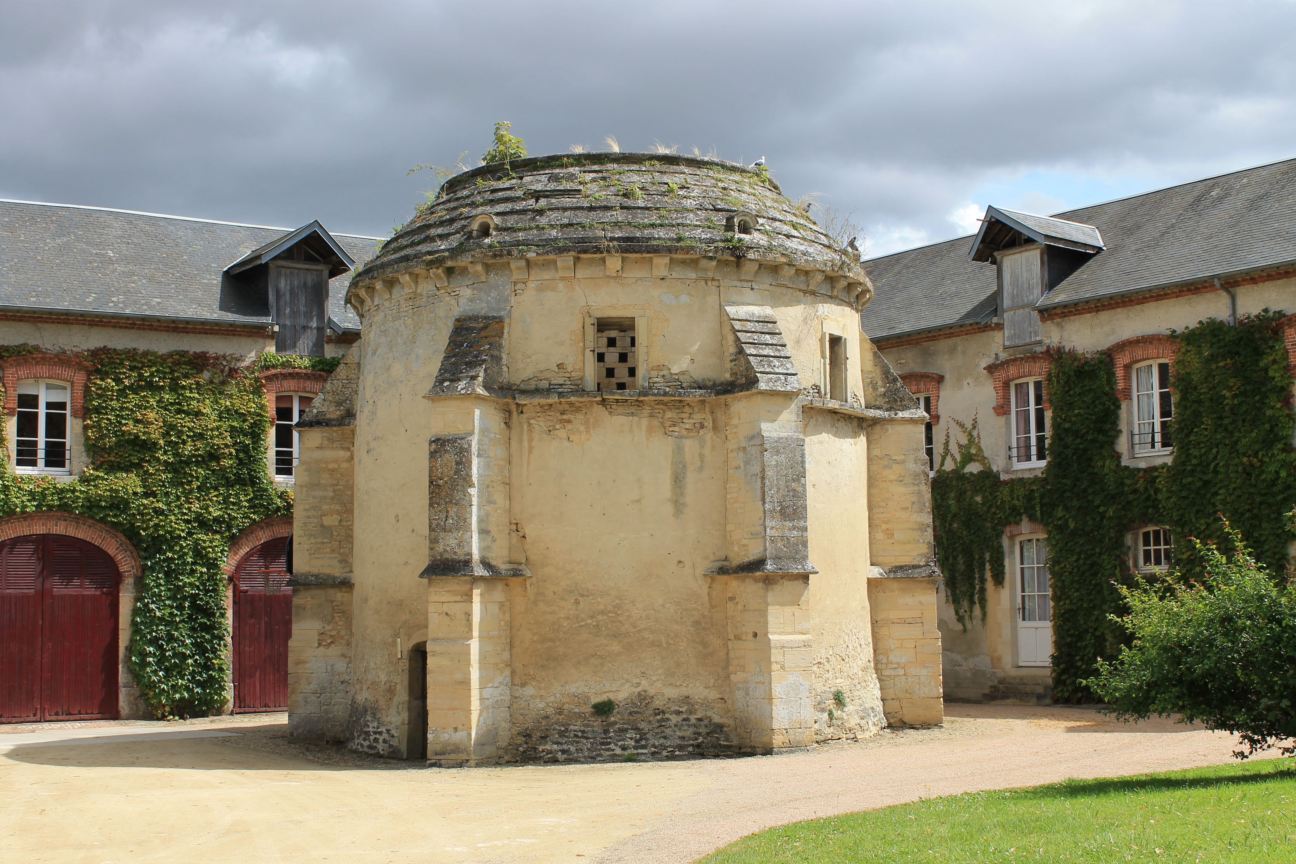 Dovecote towers Castle of Cairon (Calvados, France)